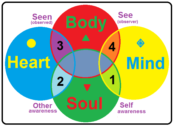 E. F. Schumacher four fields of knowledge laid upon mind-body-heart-soul venn diagram